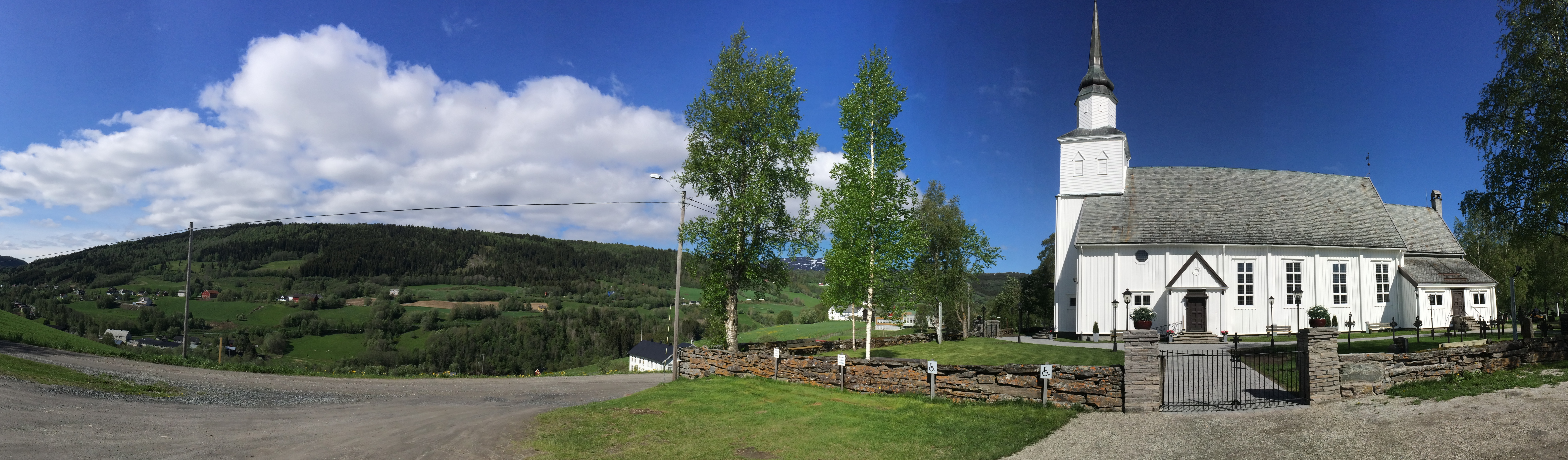 Soknedal church, Midtre Gauldal, Norway 28th May 2014 (iPhone panoramic photo, distortion may occur in details and continuity.)